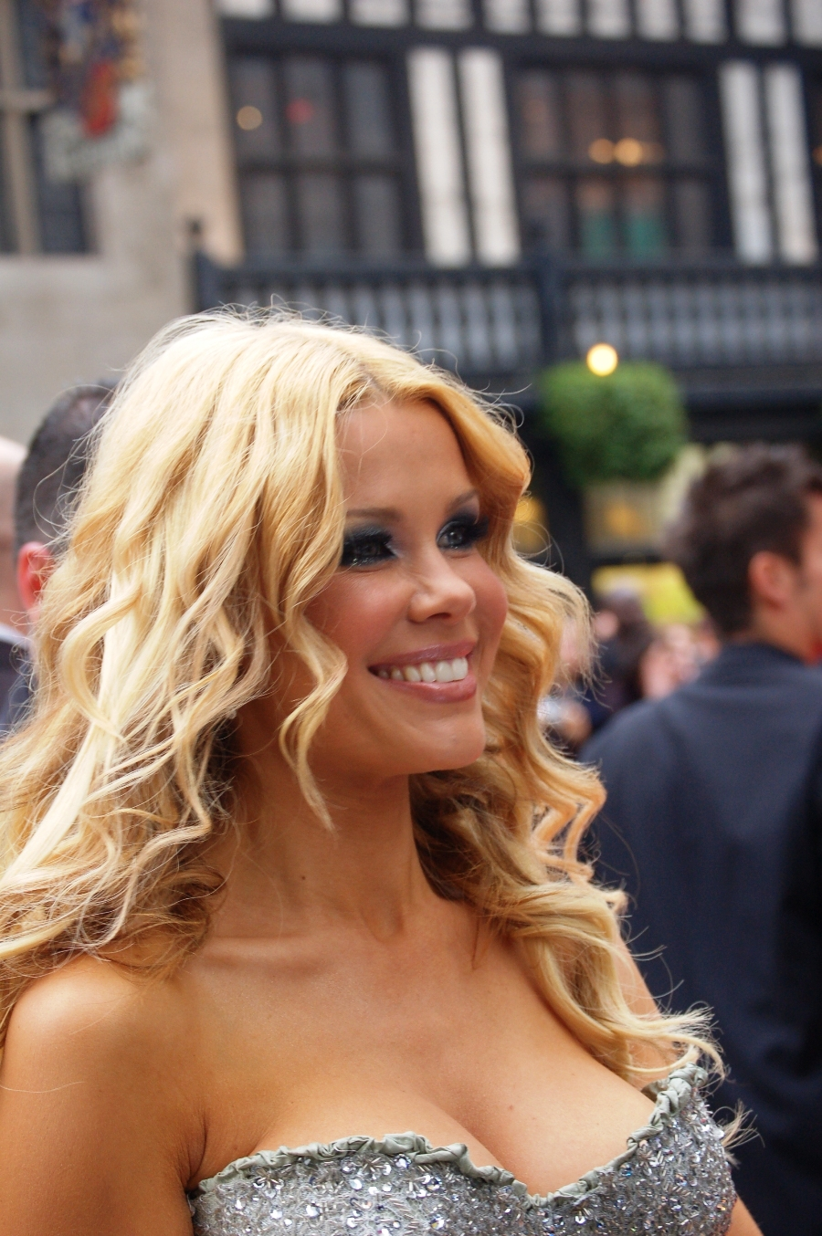 Taken just before the BAFTA awards, London. Originally this was on the Flickr website: of which I am a member.